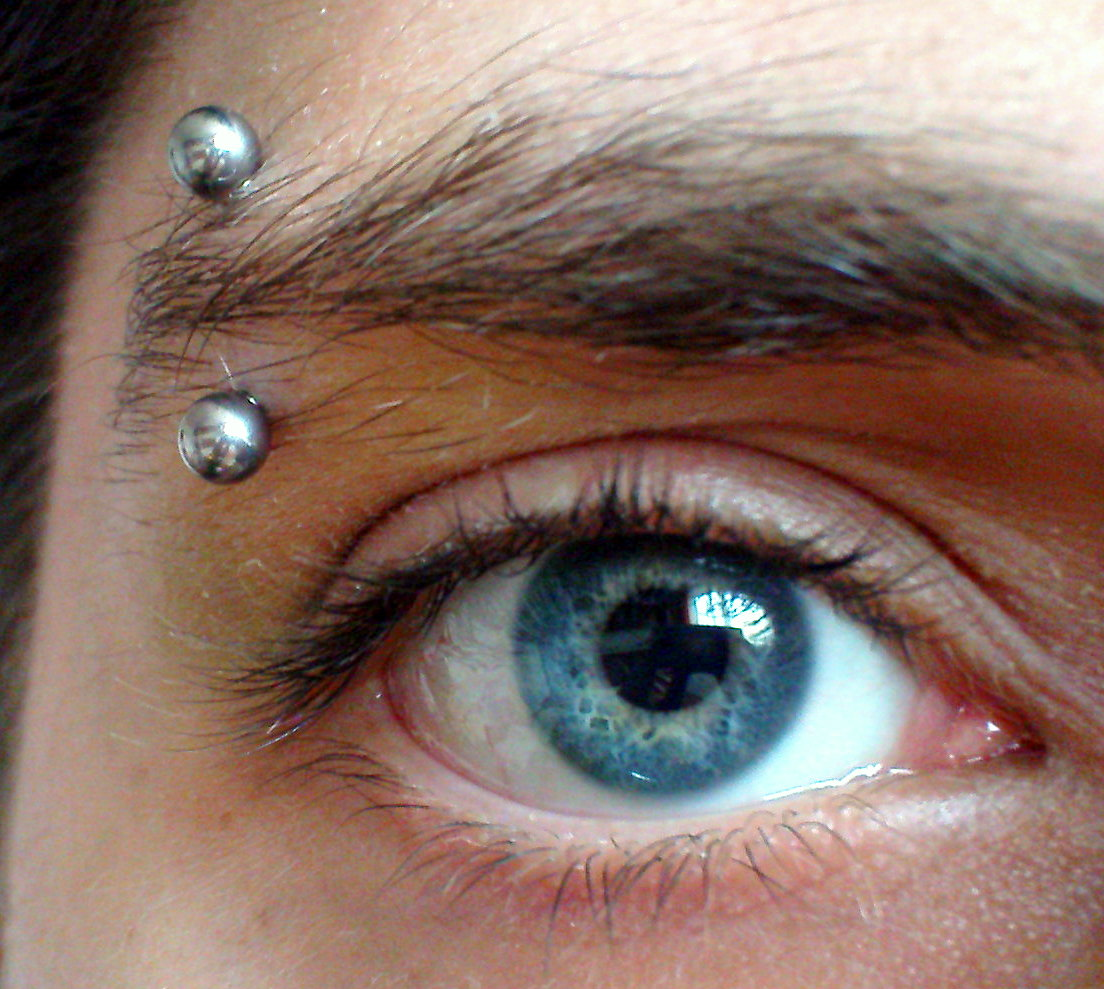 Titanium piercing